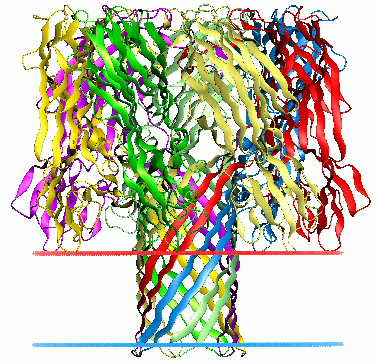 Protein image from OPM database